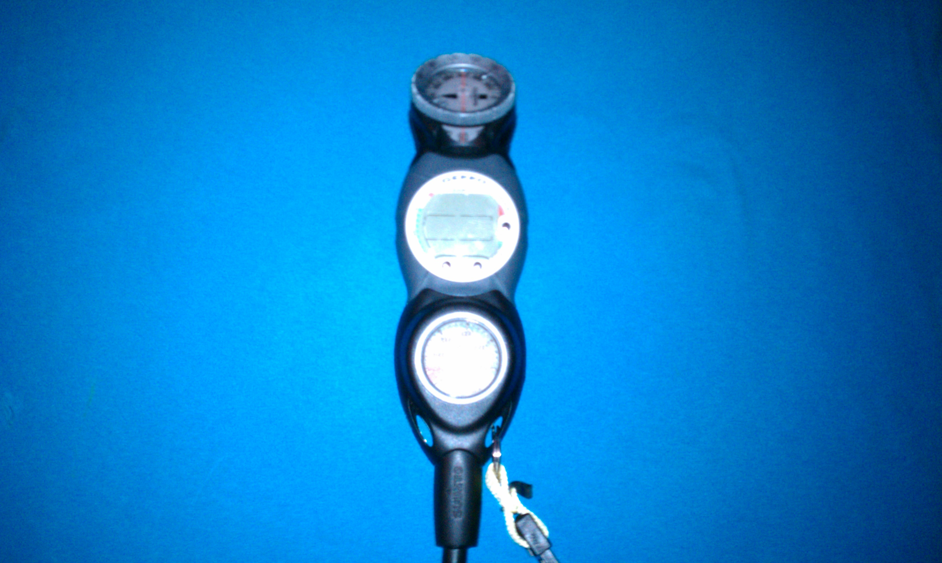 Geko dive computer